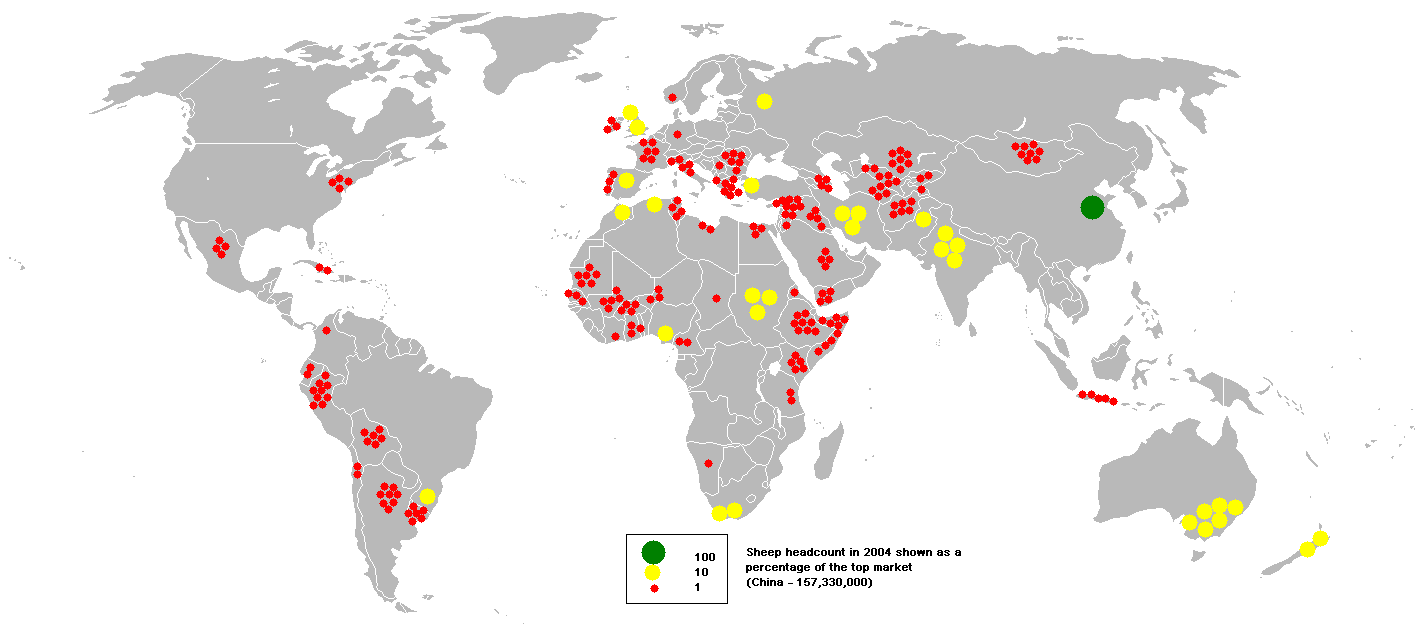 This bubble map shows the global distribution of sheep in 2004 as a percentage of the top market (China - 157,330,000). This map is consistent with incomplete set of data too as long as the top market is known. It resolves the accessibility issues faced by colour-coded maps that may not be properly rendered in old computer screens. Data was extracted on 11th June 2007 from Based on Image:BlankMap-World.png